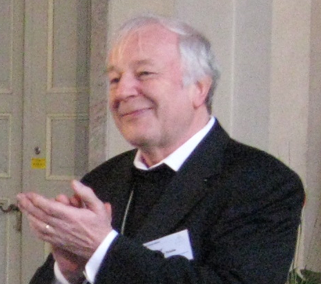 Joachim Vobbe, at the election of Ring to the position of Diocesan Bishop of the Old Catholic Diocese in Germany.